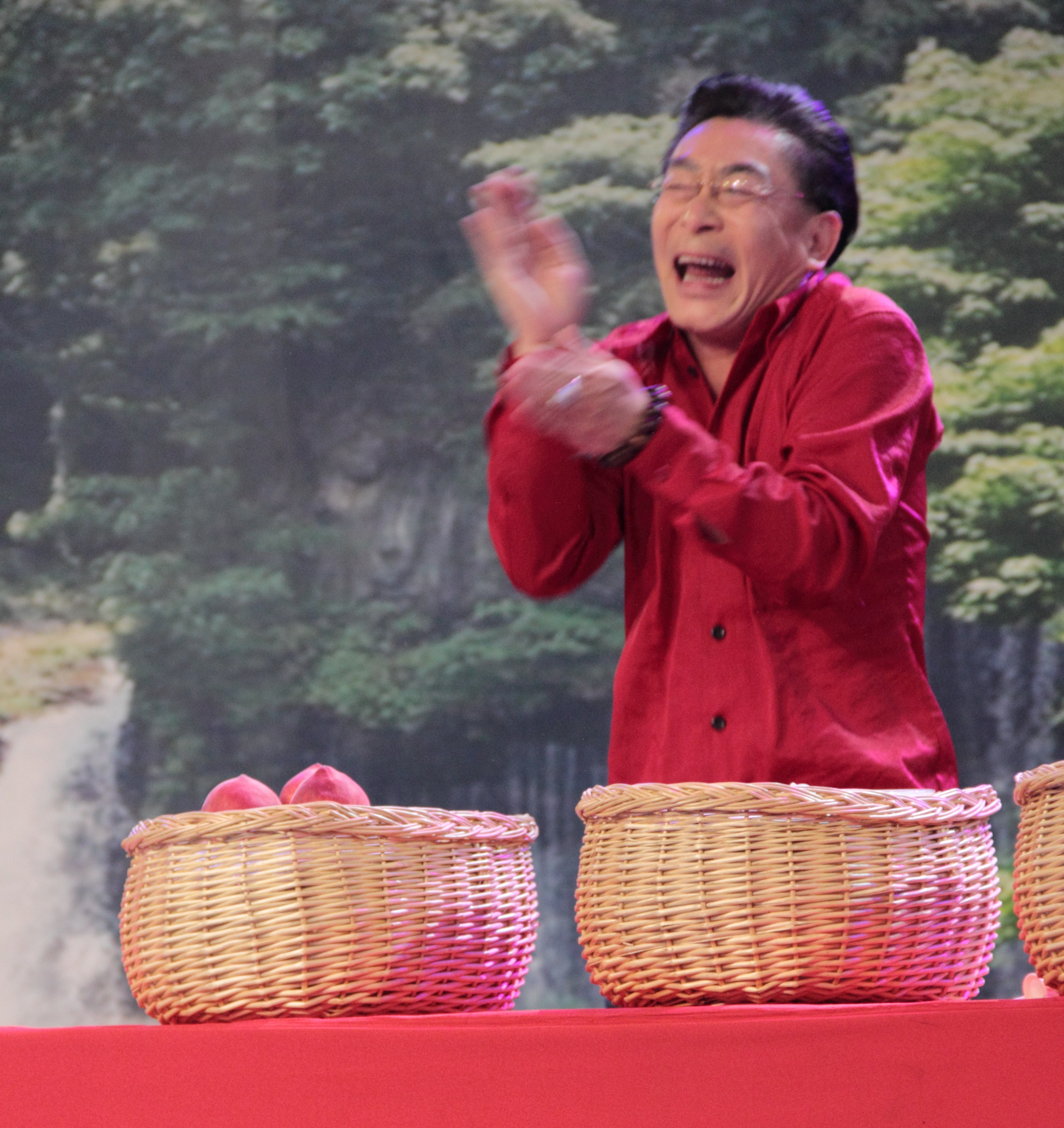 This photo was taken on the studio of Chinese entertainment show Star Reunion. In this episode, four actors of the popular TV drama Journey to the West(1986) were invited.中文（中国大陆）: 这张图片于河北卫视《明星同乐会》的演播室拍摄，这集邀请了1986年电视剧《西游记》的演员和导演。